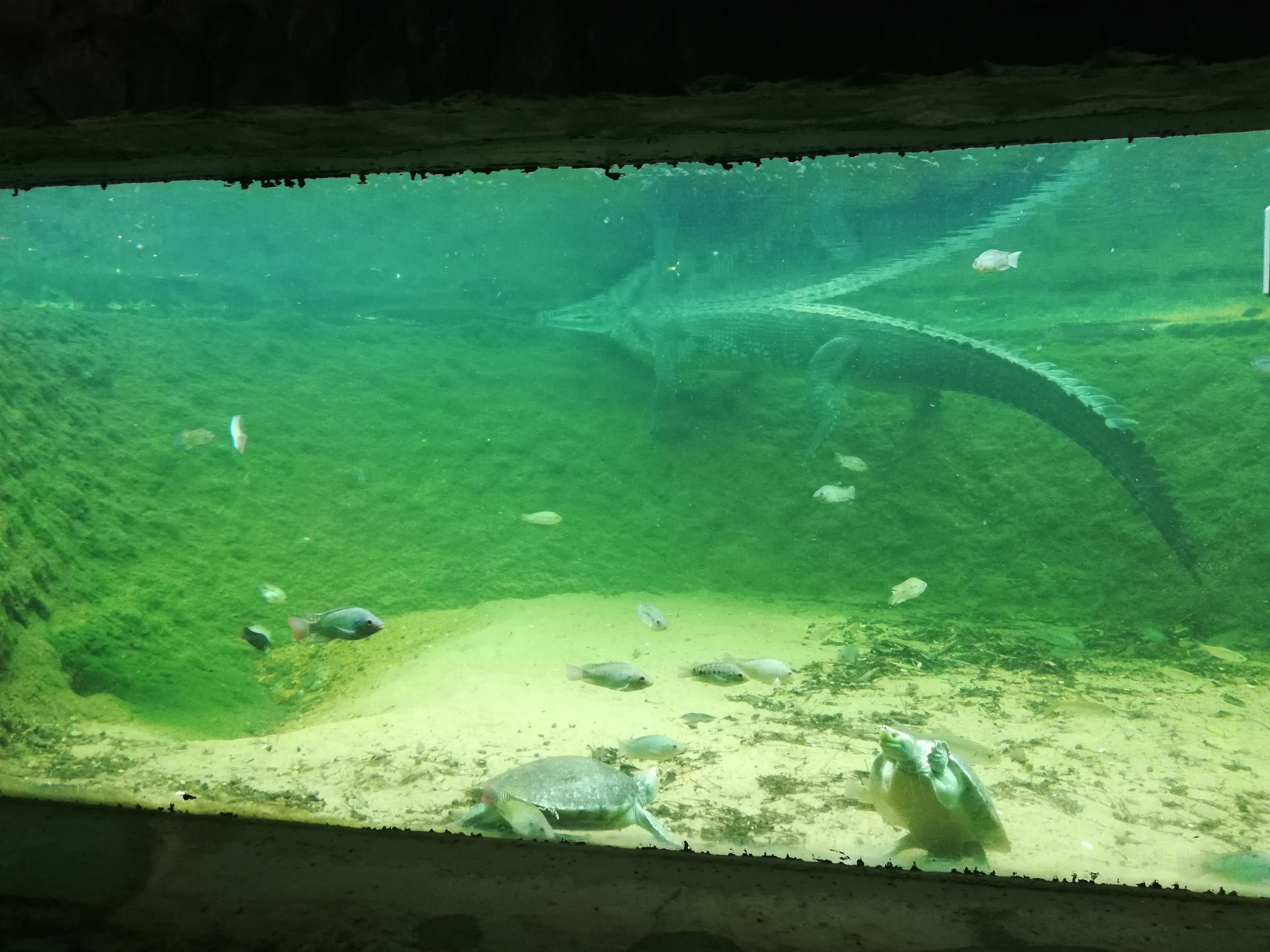 Underwater view at the CrocBank, Chennai, on 21 July 2018